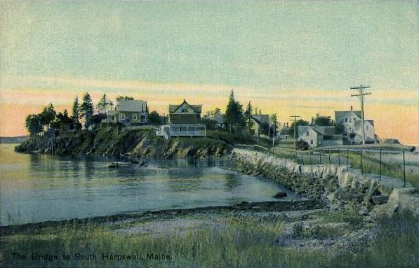 The bridge to South Harpswell, Maine